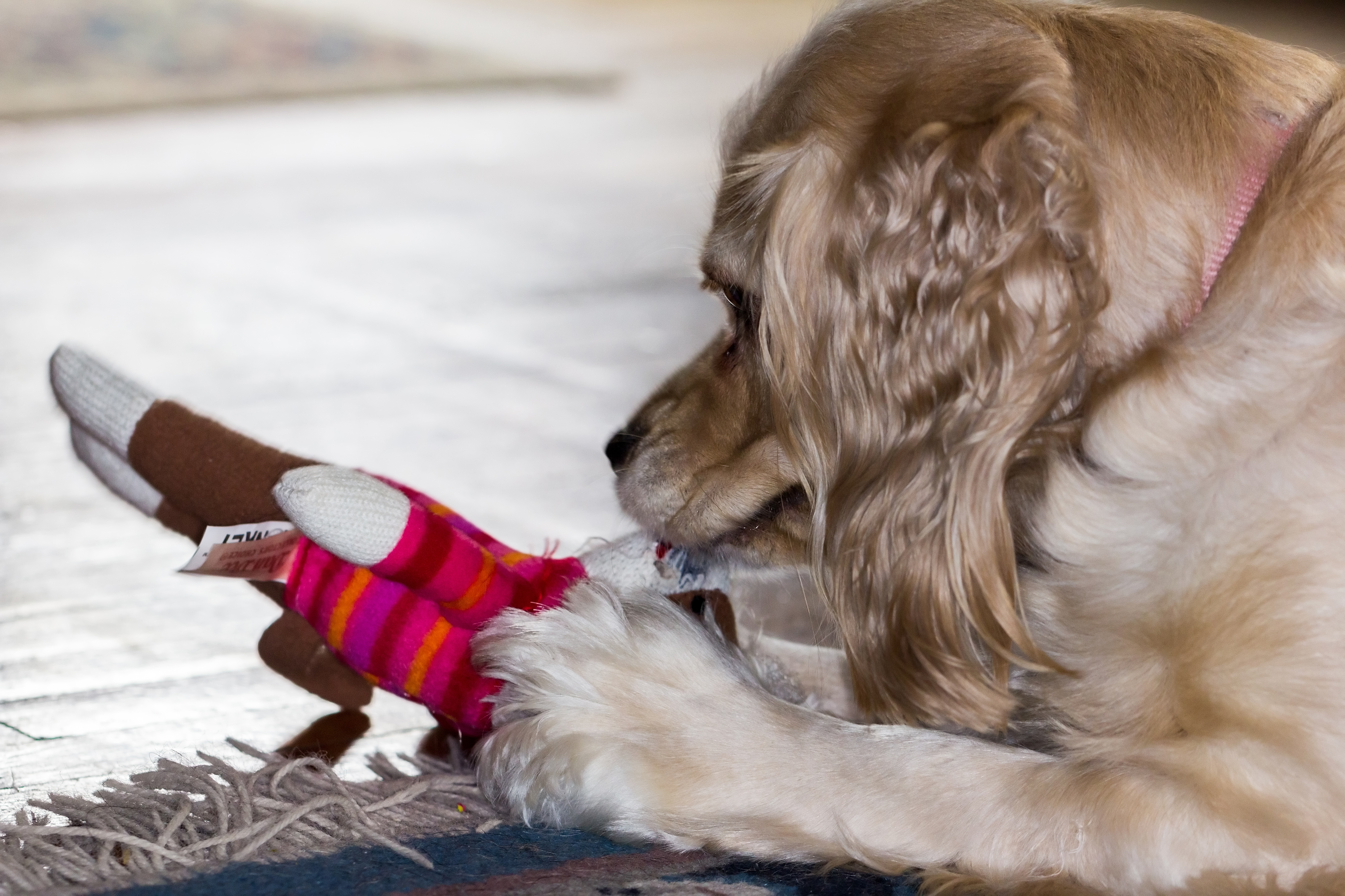 Cocker spaniel ("Lady") tearing at a monkey doll, 2015-01-02